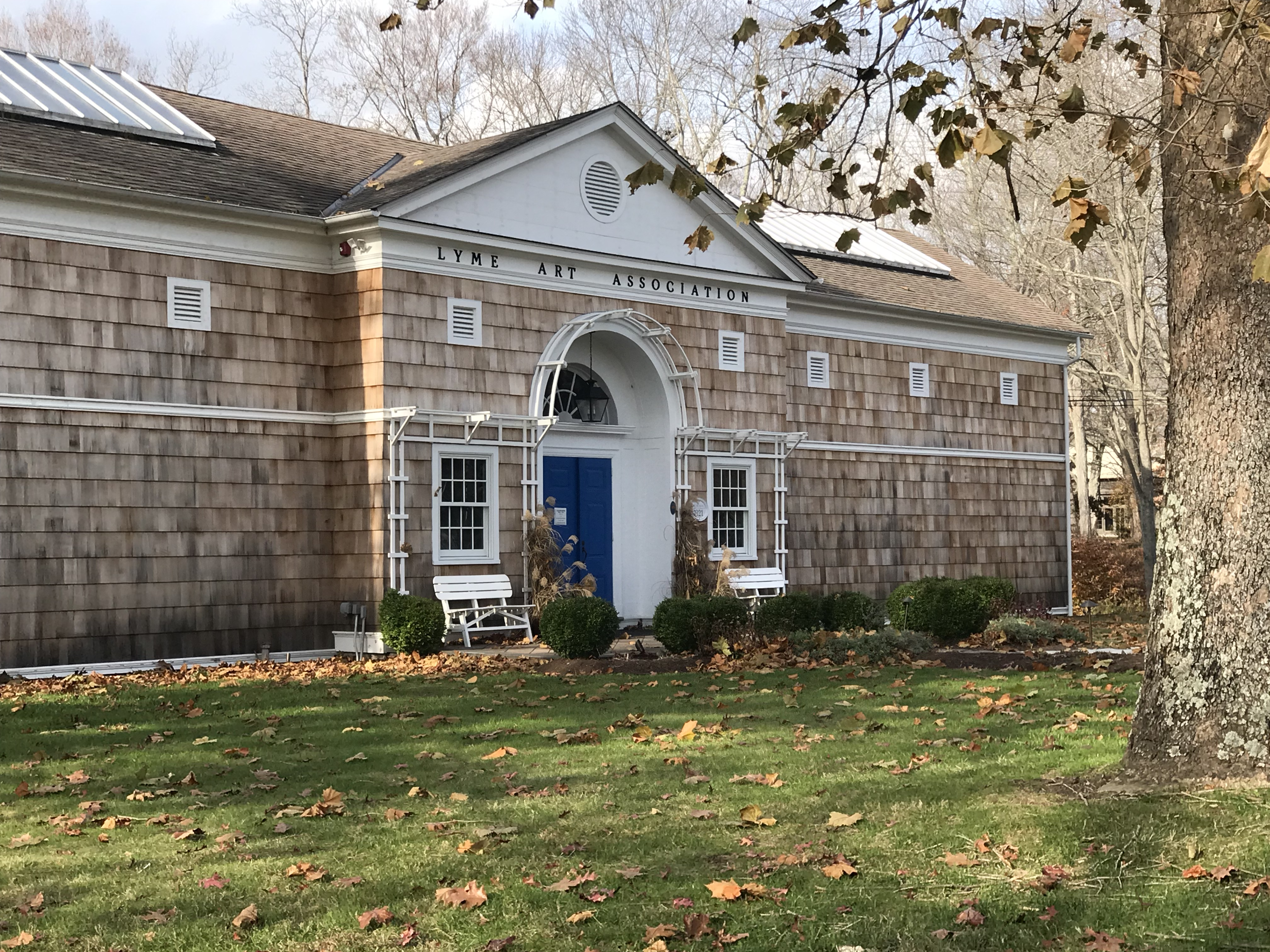 The Lyme Art Association gallery building at 90 Lyme Street in Old Lyme, Connecticut. The gallery was designed by architect Charles A. Platt and unveiled August 6, 1921 for the Twentieth Annual Exhibition.